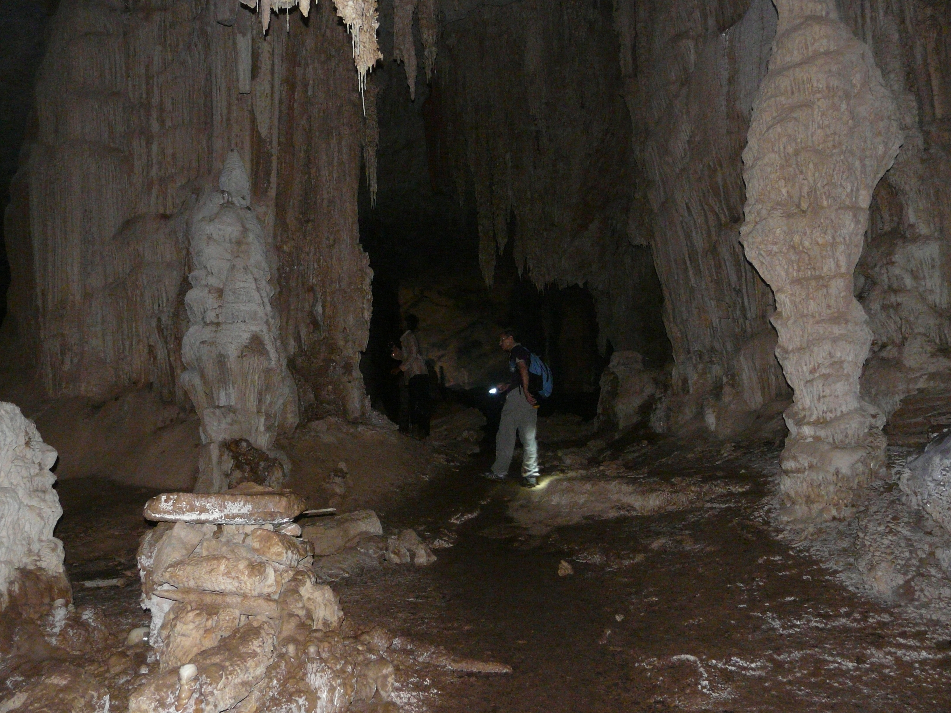 Hawk cave in Hala, East of Socotra island. It is about 15 meters in diameter, 8 meter height, 500 to 1000 meter horizontally deep.